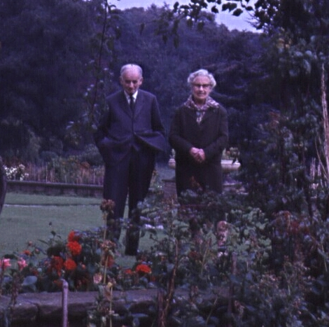 Sir Harry and Lady Garner. England's "Chief Scientist" in WWII.